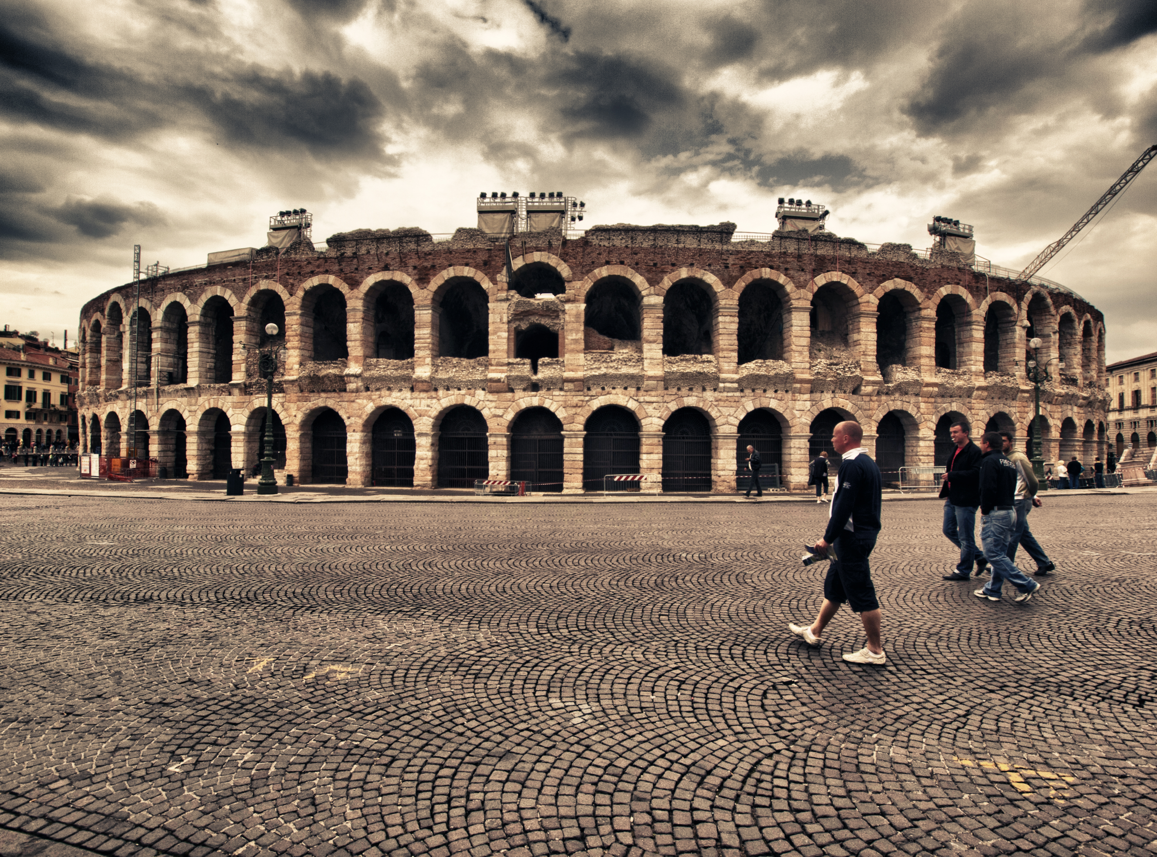 The Verona Arena (Arena di Verona) is a Roman amphitheatre in Verona, Italy, which is internationally famous for the large-scale opera performances given there. It is one of the best preserved ancient structures of its kind. The building itself was built in AD 30 on a site which was then beyond the city walls. The ludi (shows and games) staged there were so famous that spectators came from many other places, often far away, to witness them. The amphitheatre could host more than 30,000 spectators in ancient times.